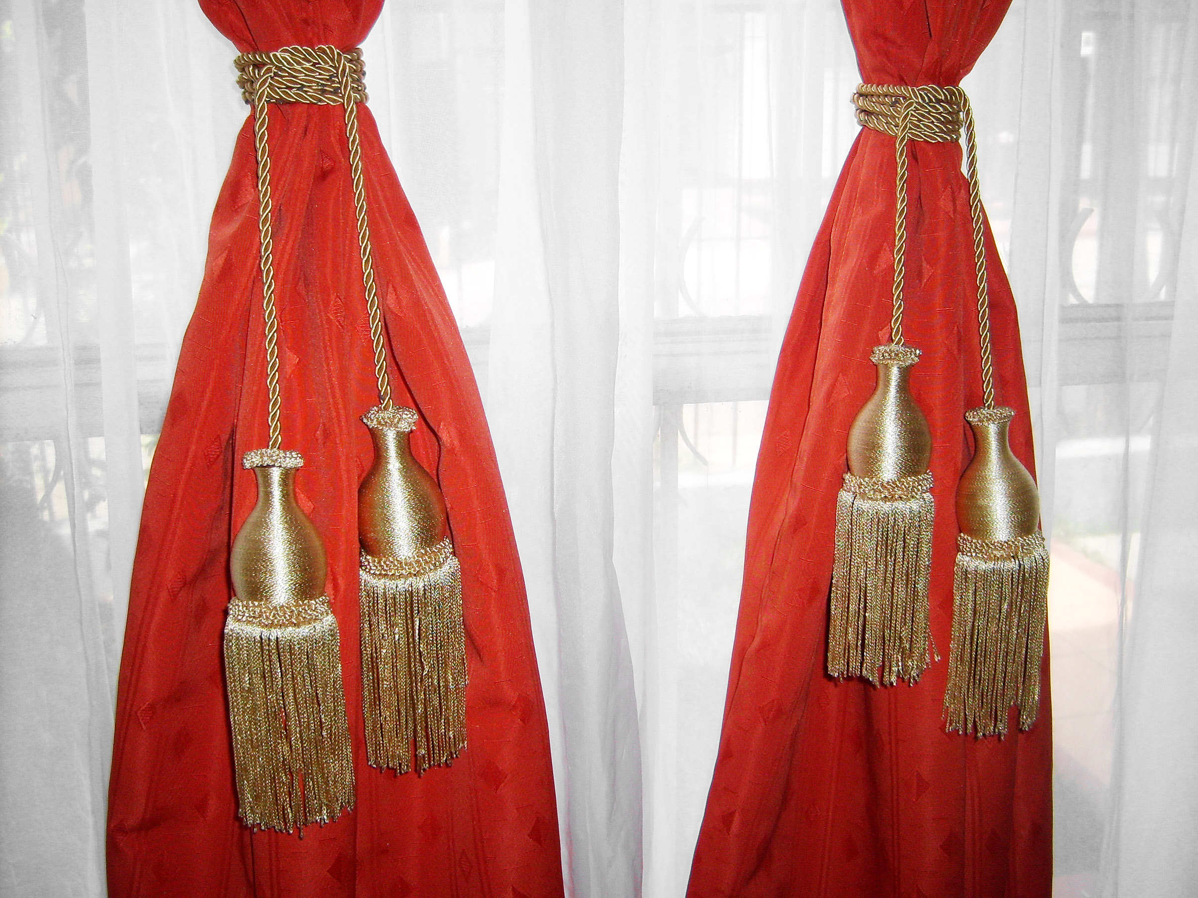 Yellow tassels.